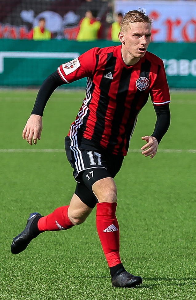 Mikhail Gashchenkov with FC Amkar Perm in a game against FC Spartak Moscow.